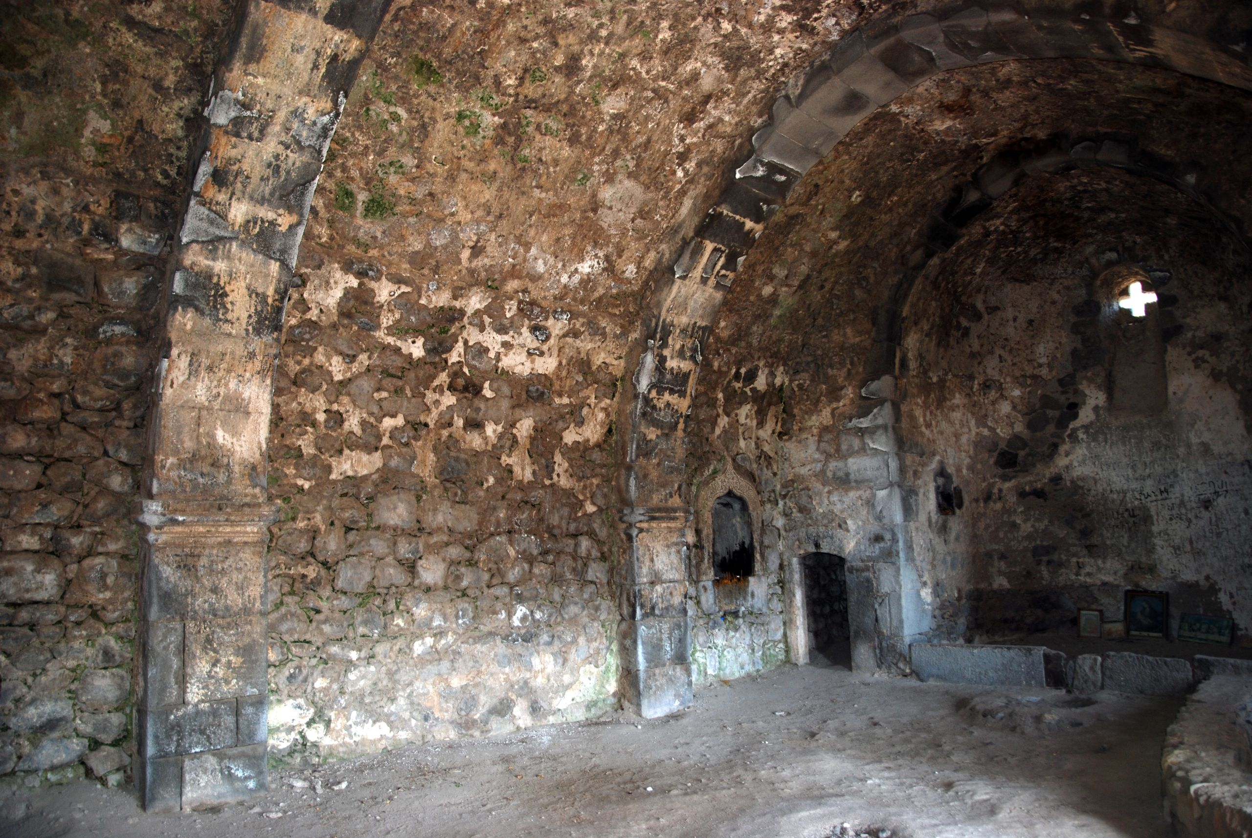 Khndzoresk, upper church